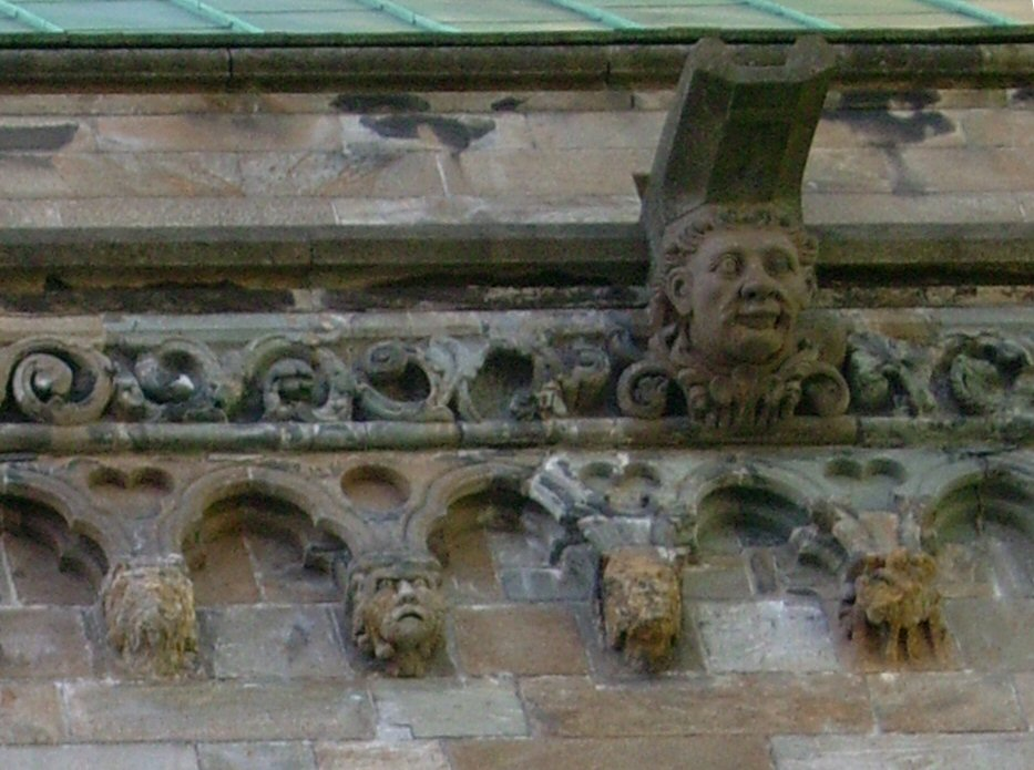 Nidaros Cathedral, Trondheim, Norway. Weathered ornaments of Grytdal sopastone on the northern choir wall.